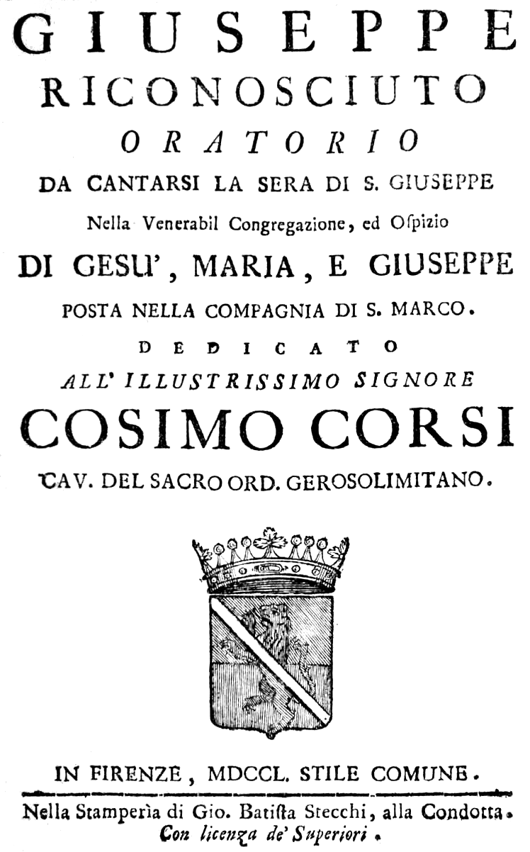 Giuseppe Maria Orlandini - Giuseppe riconosciuto - titlepage of the libretto - Florence 1750